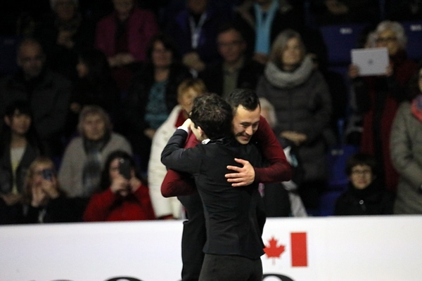 Patrick Chan at the 2018 Canadian National Figure Skating Championships